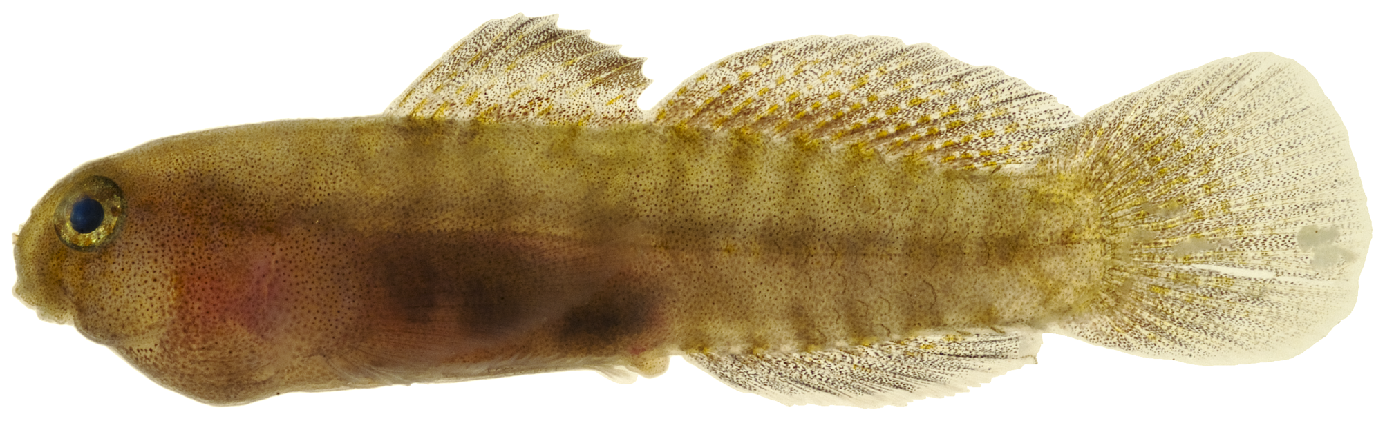 Risor ruber (Rosén, 1911) —tusked goby, 18.7 mm SL, adult. Photo by JT Williams.